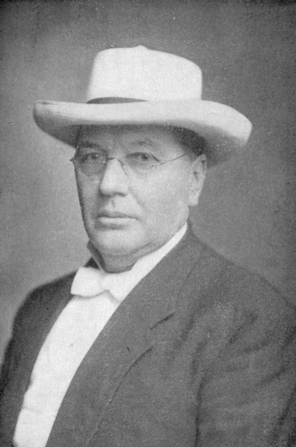 1908 photograph of stock promoter Christopher Columbus Wilson.